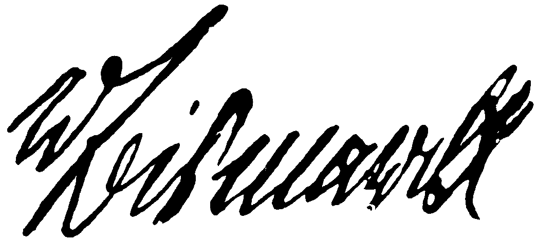 Autograph of Otto von Bismarck